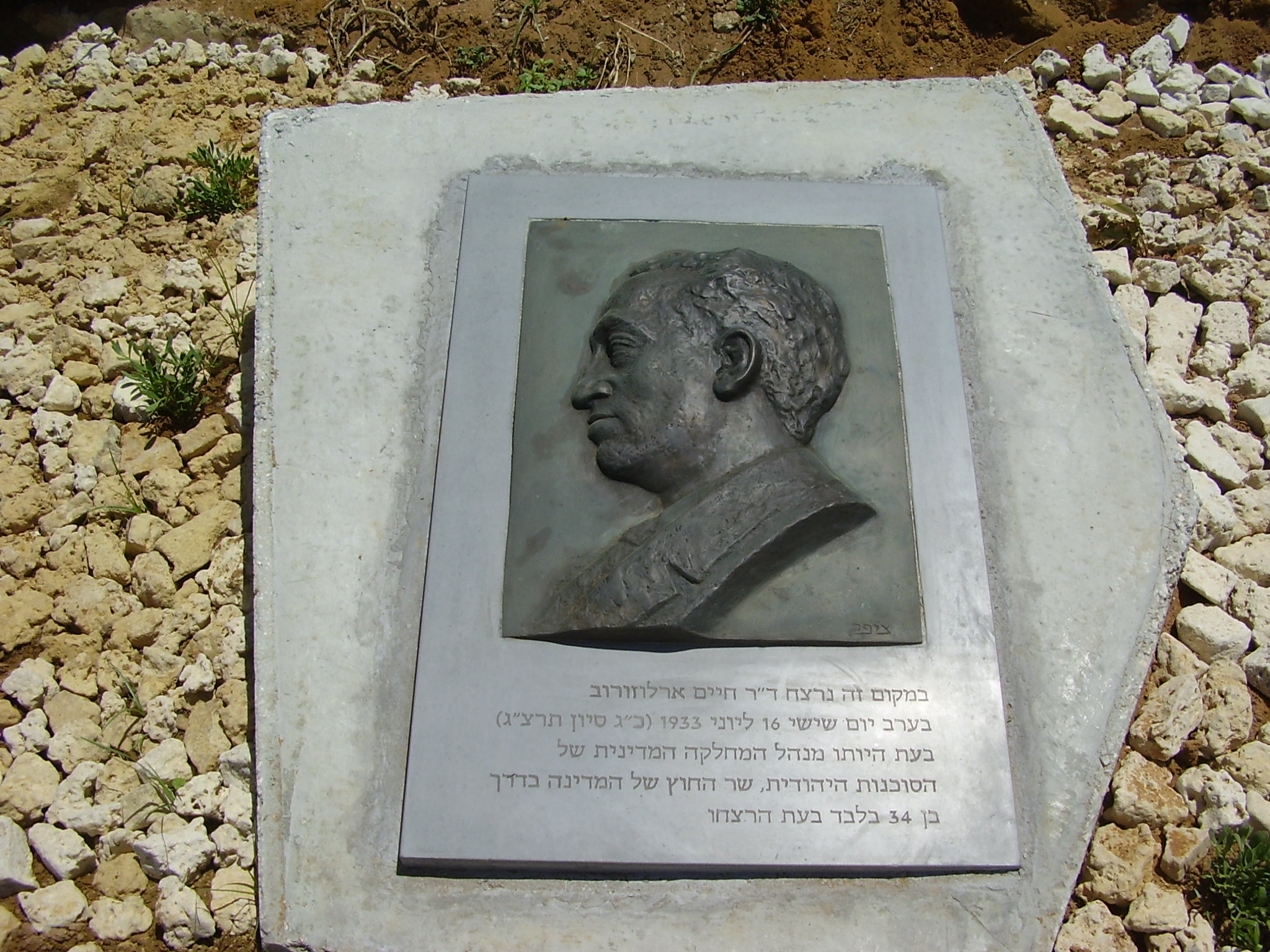 haim arrlosoroff memorial in tel aviv beach at the spot were he was assassinated in 1933. אנדרטה לחיים ארלזורוב בחוף תל אביב במקום בו נרצח ב-1933